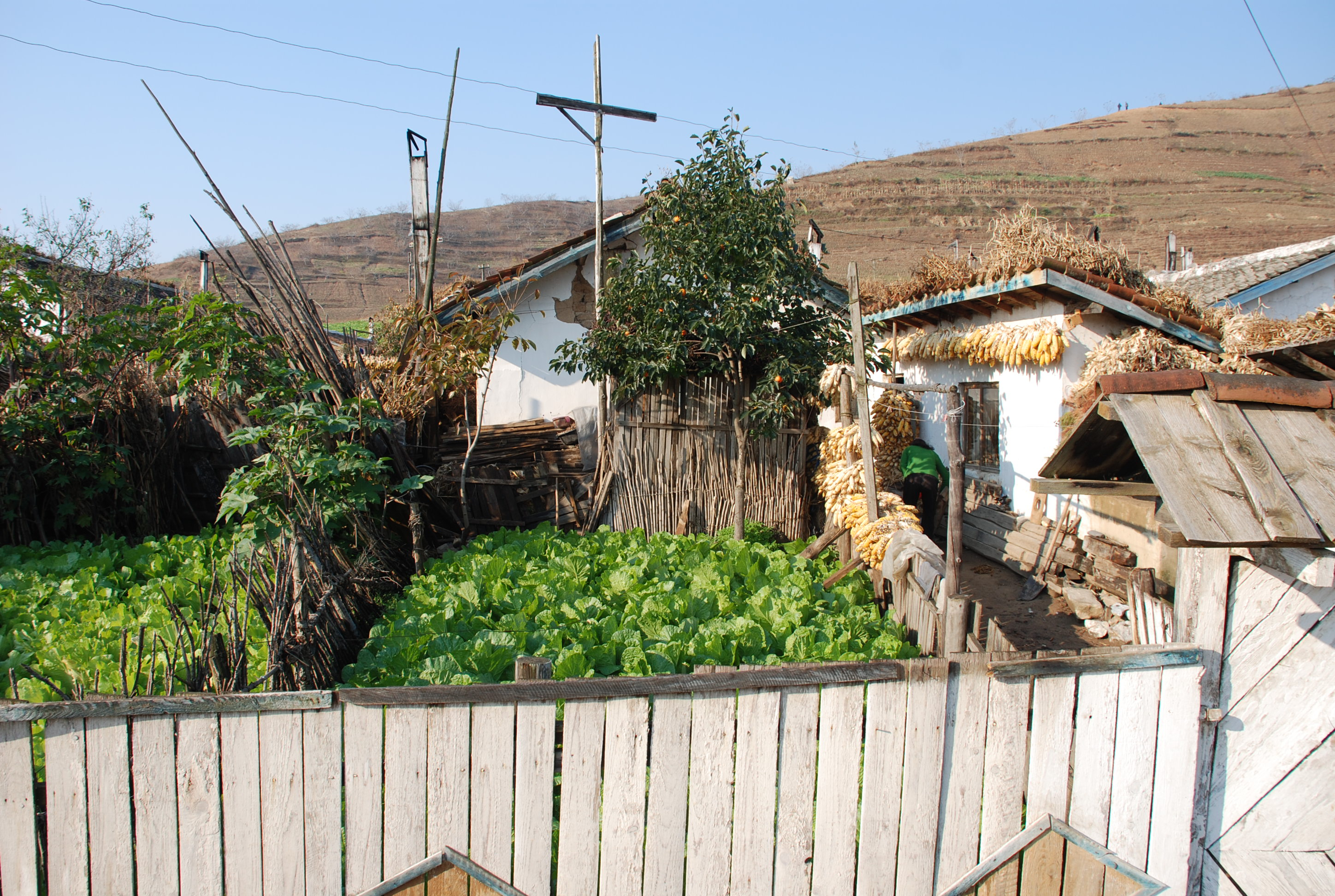 In all the villages visited, the small gardens around houses are all being used to grow food, mostly cabbage for the traditional Korean dish "kimchi" or pickled cabbage.